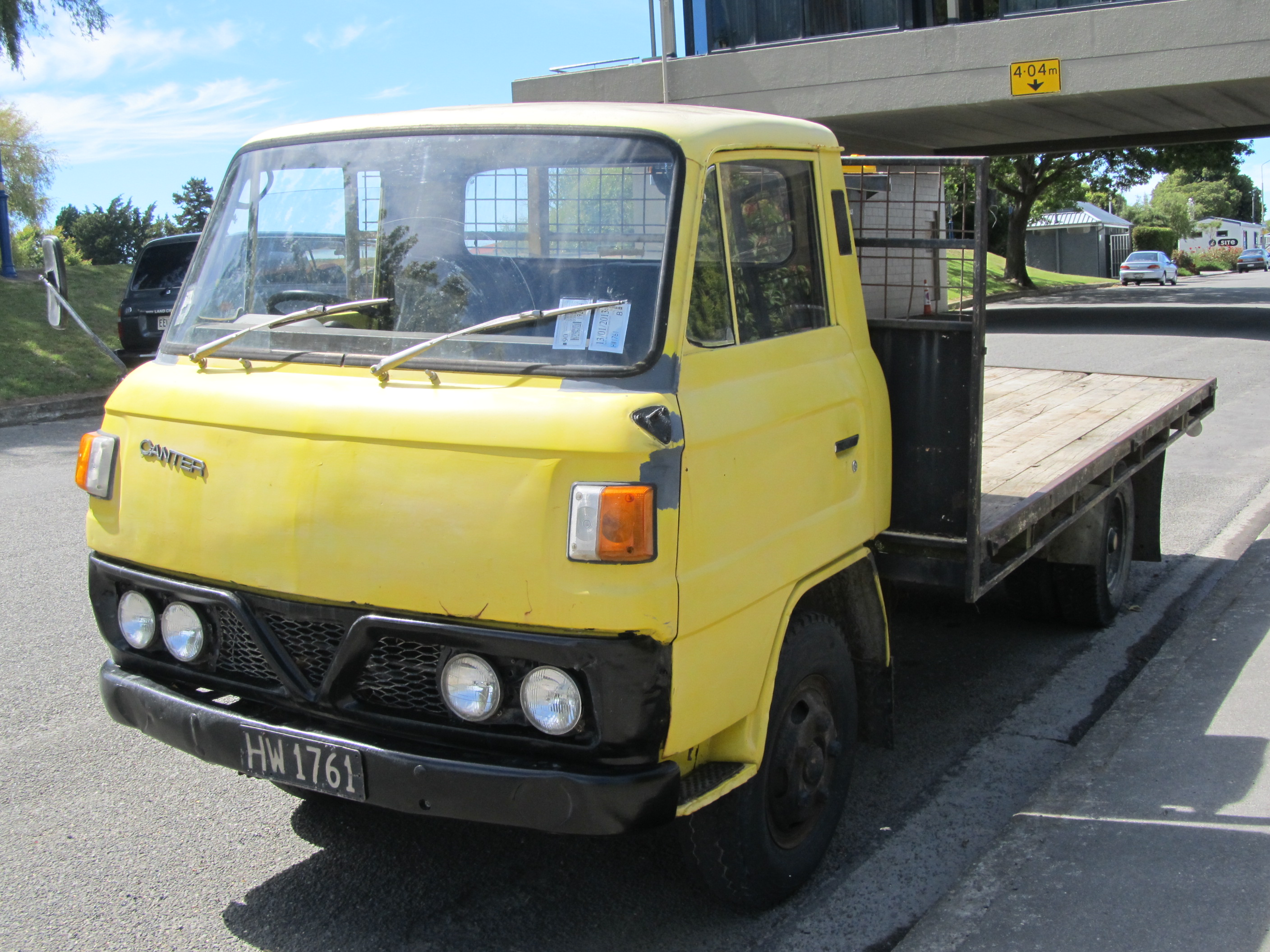 HW1761 Well, I never knew of Canters this old in NZ before! Unbelievable that a 36-year-old Japanese truck is still seeing what appears to be daily service. Of course, that is partly expected here given the average age of the national fleet, but still, wouldn't most of these have rotted into the ground by now? Very period colour as well - although I can't remember seeing any Mitsubishi passenger cars in this shade before. Seen just along from the Kaiapoi Working Men's Club nearly a month ago.